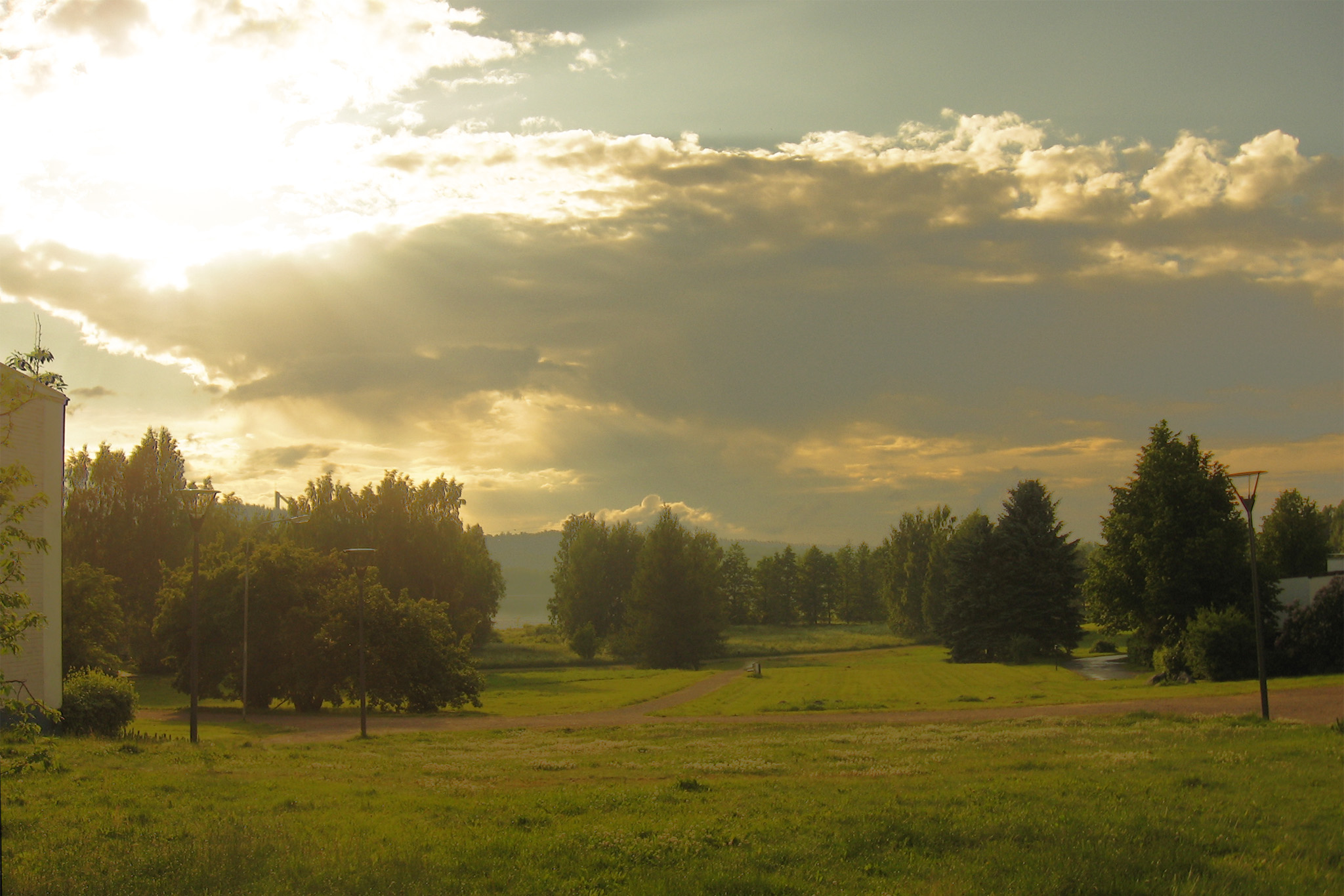 A view of Stavanger park in Viitaniemi, Jyväskylä, Finland.